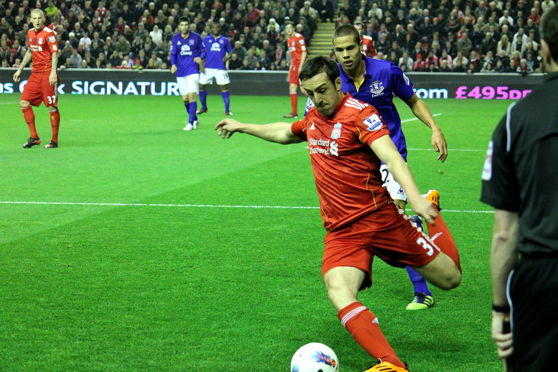 Jose Enrique during Merseyside Derby in 2012.